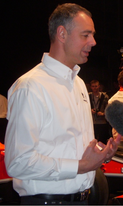 Nick Wirth at the Launch of the Virgin Racing MVR-02 Formula 1 car. BBC Television Studio. Monday 7 Februray 2011.